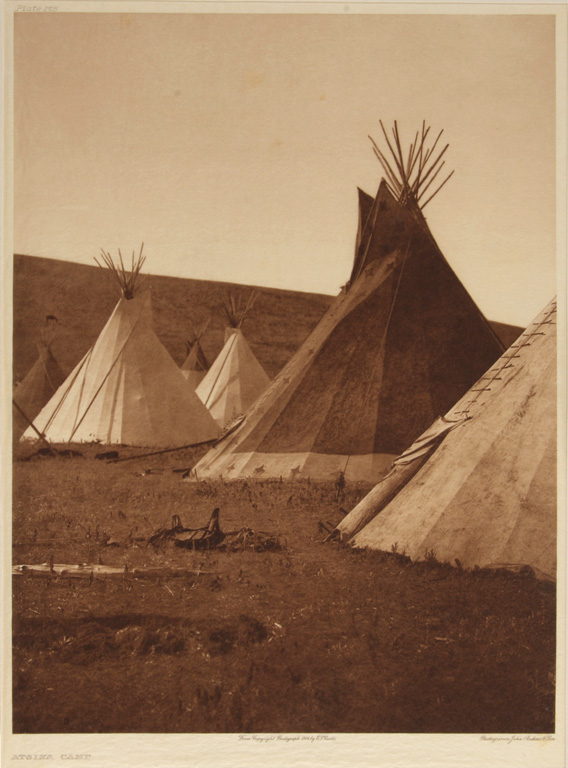 Atsina Camp, 1908